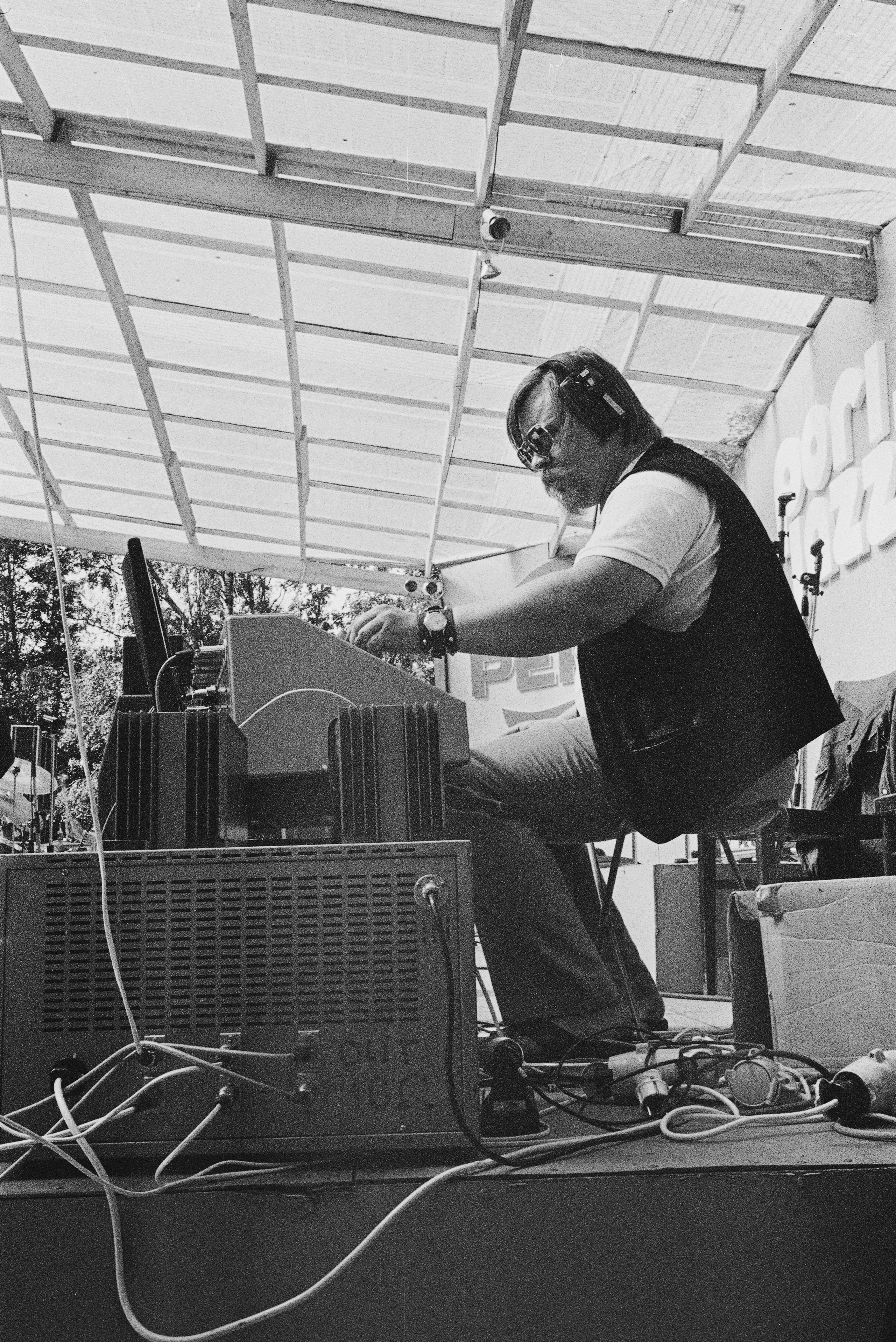 Photograph of the Finnish audio technician Matti Sarapaltio (1940–2014).